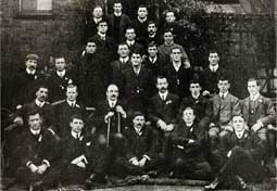 The Original All Blacks, the New Zealand team that toured the British Isles and was only defeated by Wales.